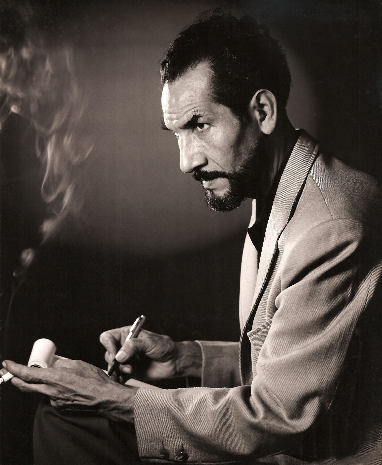 Photograph of Colombian sculptor Julio Abril taken by photographer Otto Moll González in 1960 in Cali, Colombia.